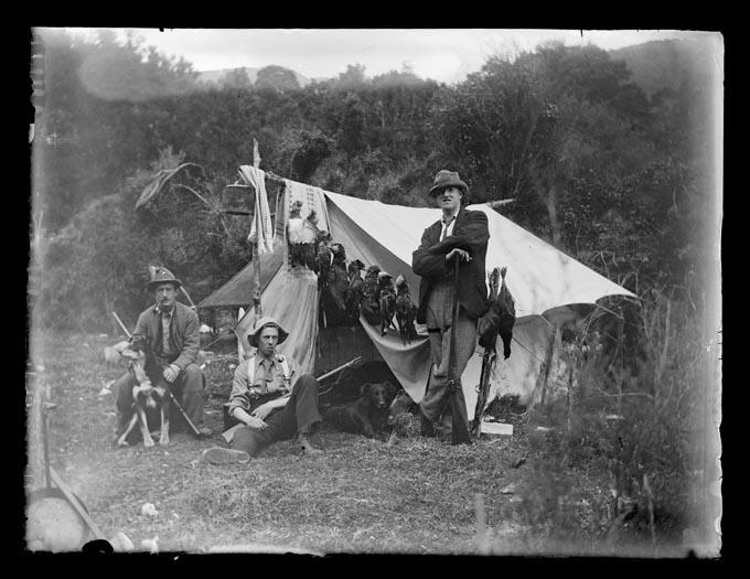 View of three men with guns and two dogs outside a small tent in the bush. A row of shot native birds, possibly Kea, Kaka, or Kereru, are strung up in front of the tent